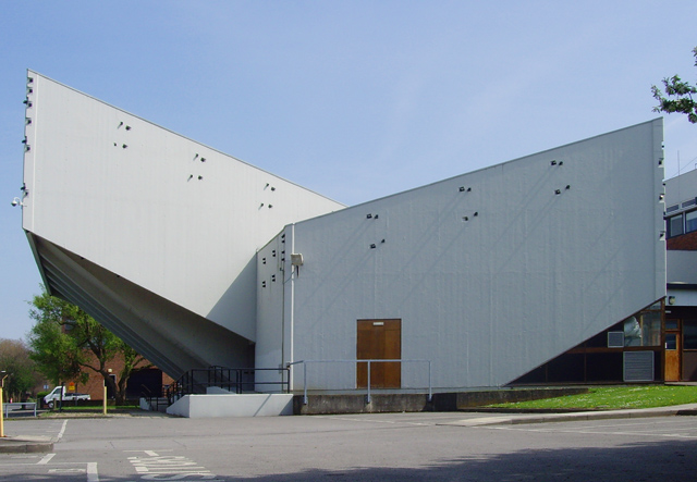 Lecture theatre, Hull University At the rear of the Applied Science block